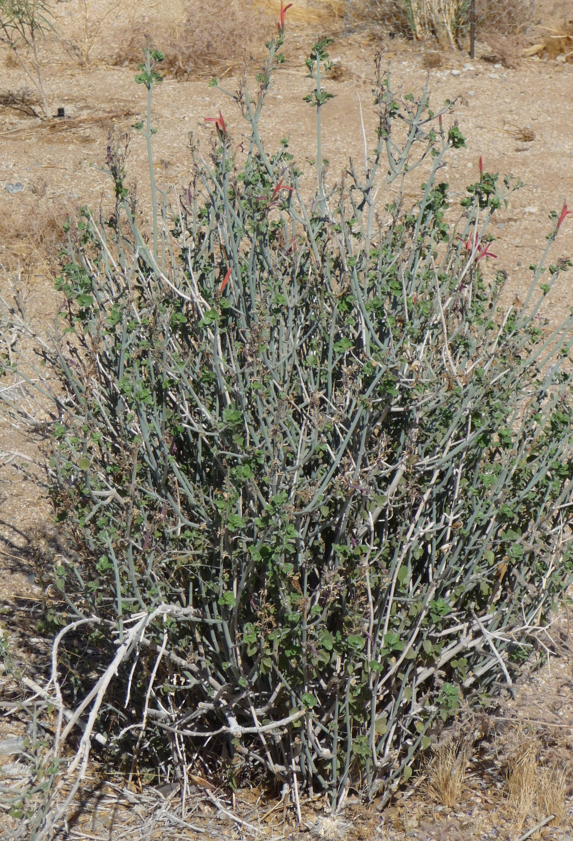 Joshua Tree National Park - Chuparosa (Justicia californica)